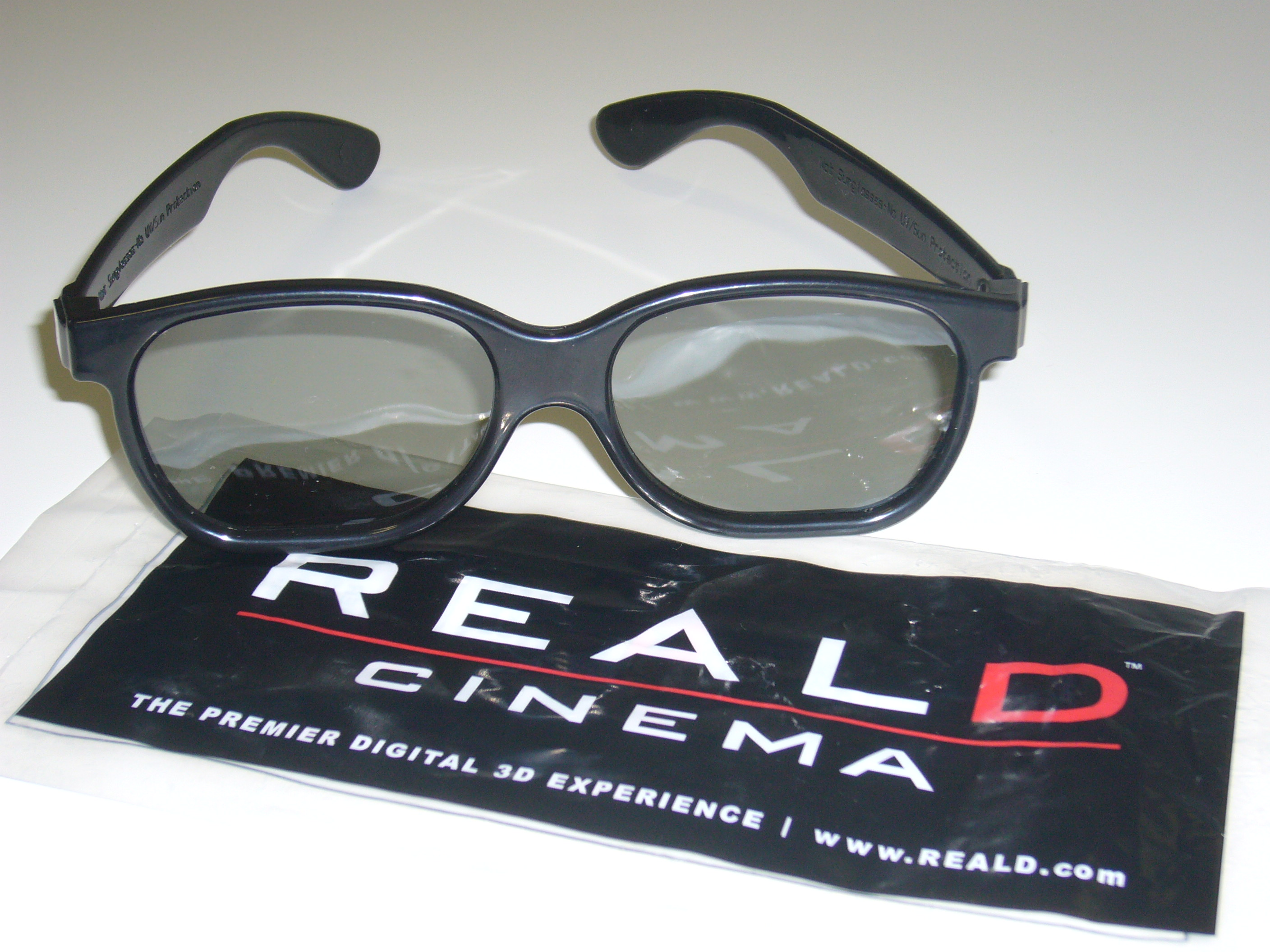 Real D glasses